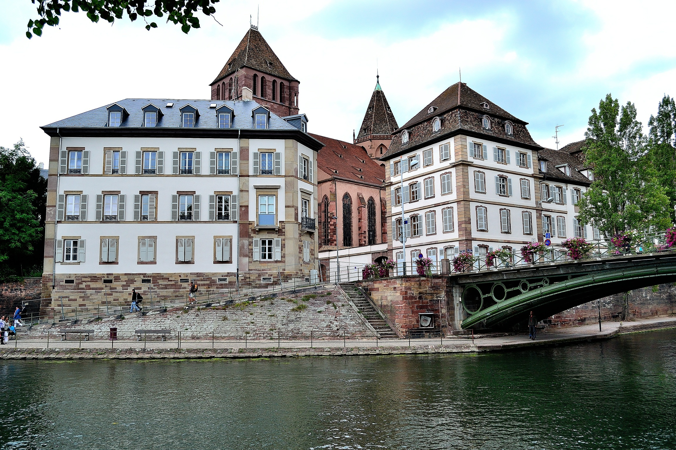 Strasbourg